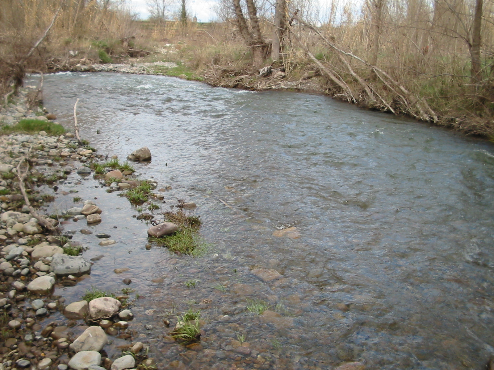 Leza River near Murillo, La Rioja, Spain. Leza is a tributary of Ebro River.